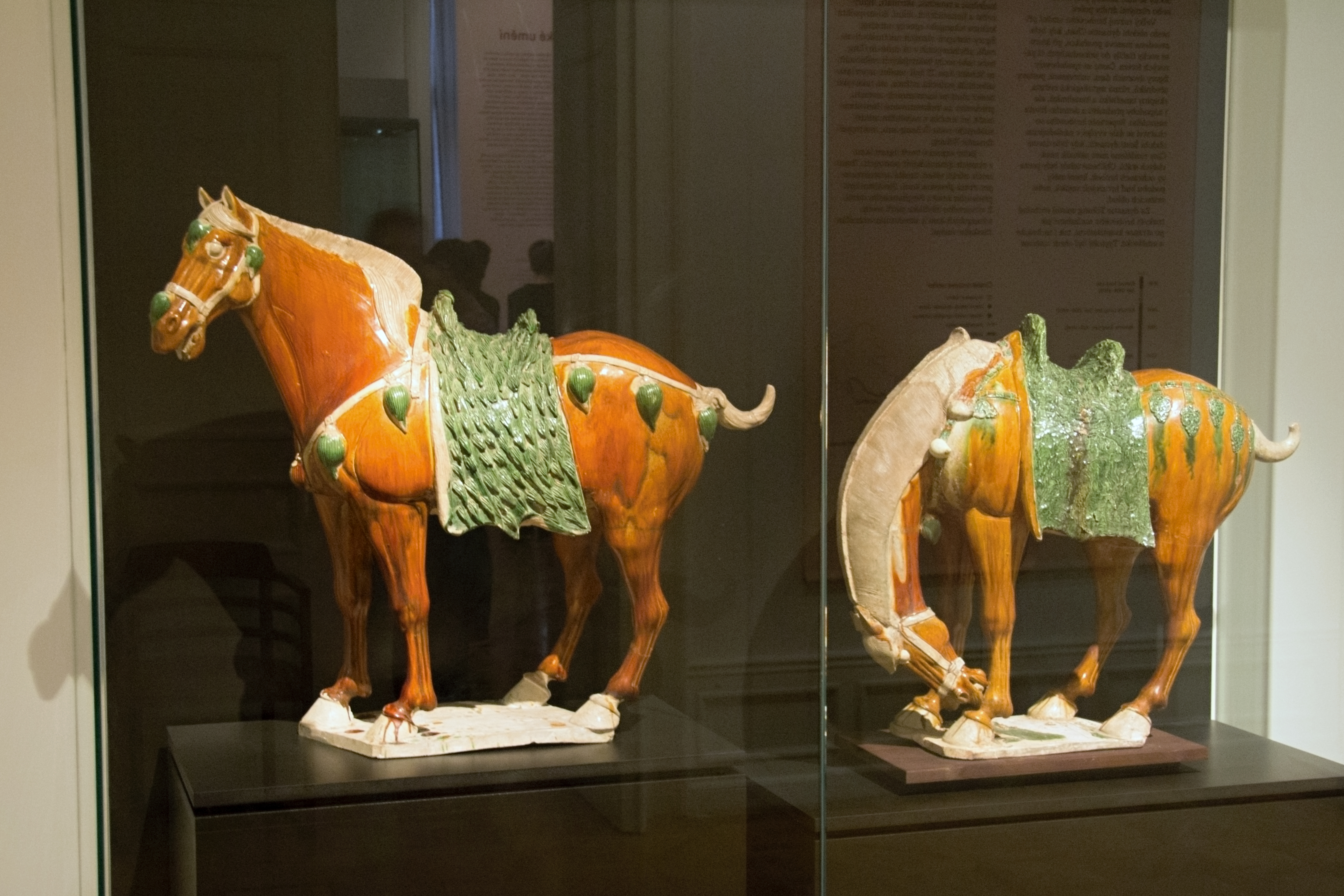 Standing Fergana horse. China, Tchang dynasty, early 8th century AD. Glazed earthenware. Prague, NG Vp 129. Fergana horse on pasture. China, Tchang dynasty. Glazed earthenware. Prague, NG Vp 4128.